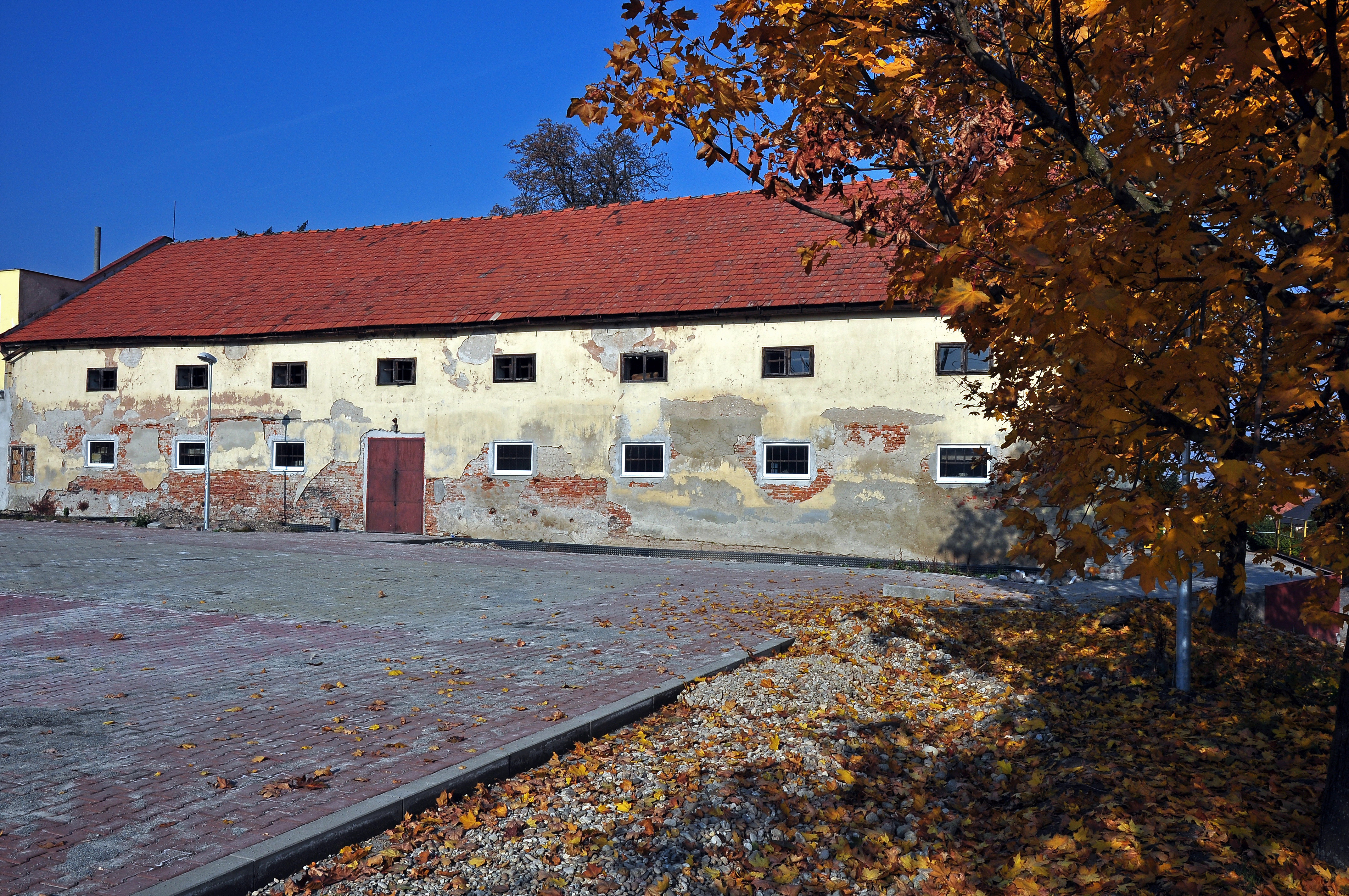 Dolný Pial, Castle, Slovakia